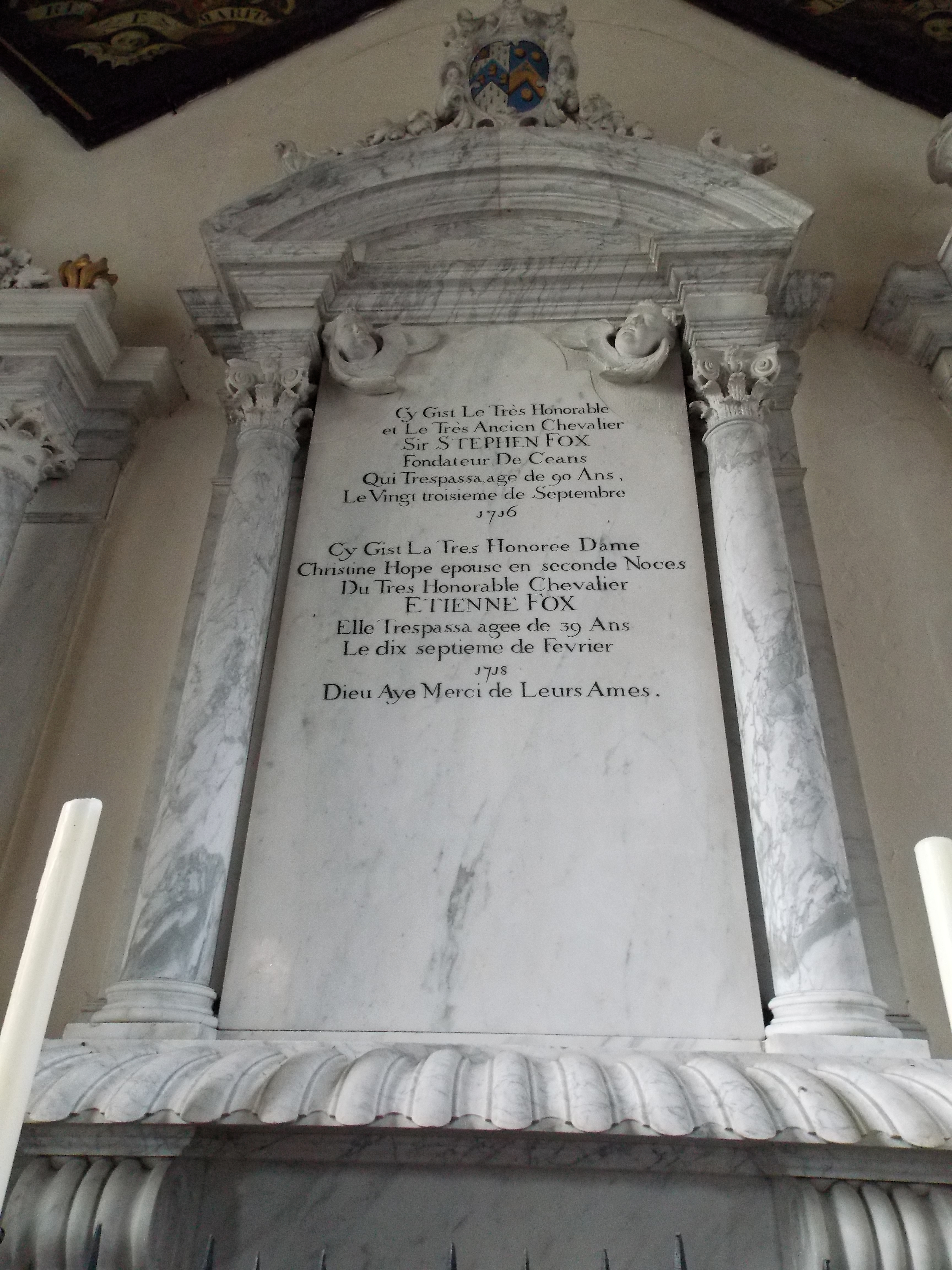 Wall-mounted monument to Sir Stephen Fox (1627–1716) and his second wife Christine Hope (1679-1718), in the Ilchester Chapel of All Saints' parish church, Farley, Wiltshire, England, which he built. Unusually the inscription is in French, in which language he was proficient, reflecting the time he spent in France with the exiled King Charles II. He built the church circa 1688-90, to the design of Sir Christopher Wren and effected by master mason Alexander Fort. He is called on the monument fondateur de céans ("founder of this place")